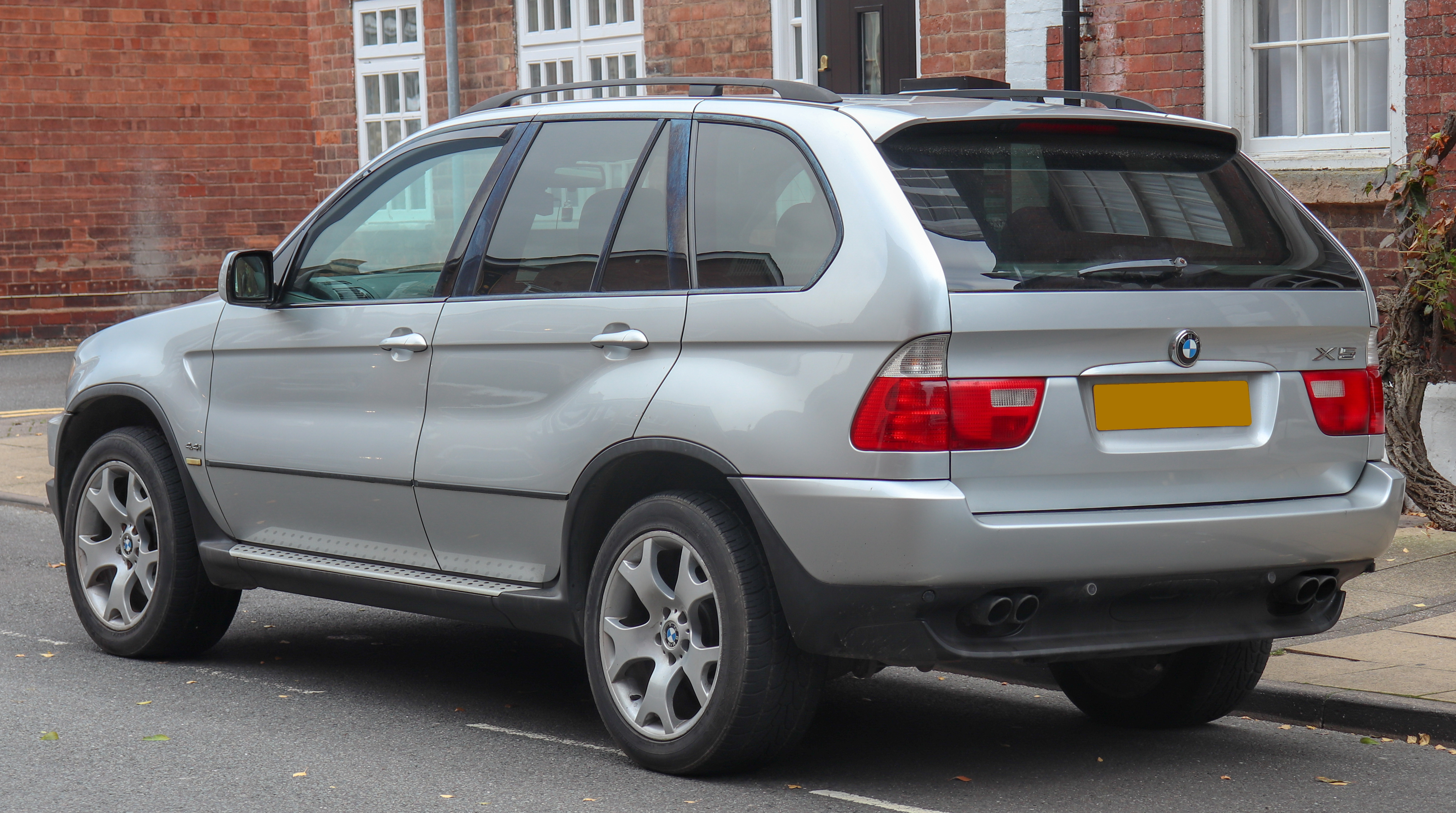 2002 BMW X5 Sport Automatic 4.4 Rear Taken in Warwick